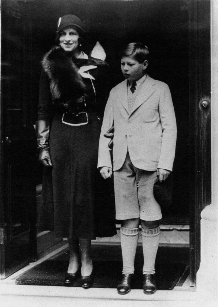 Princess Helena of Rumania (future Queen Mother) and her son, Crown Prince Michael, future King of Rumania. London, photo taken between 21 September-5 October 1932.